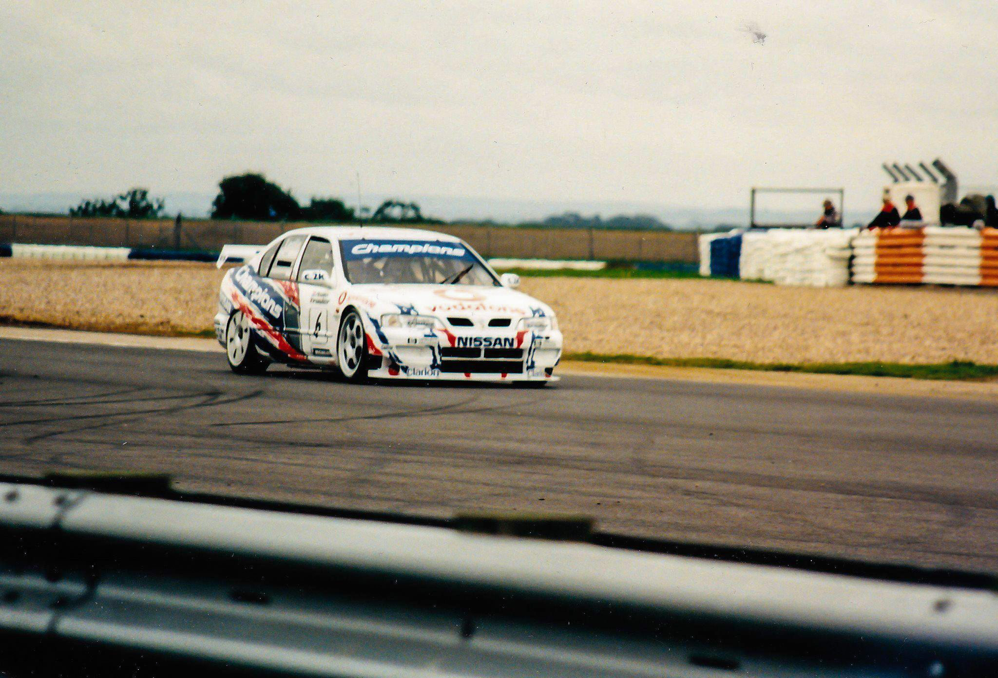 BTCC 1999 David Leslie Nissan Primera at Silverstone